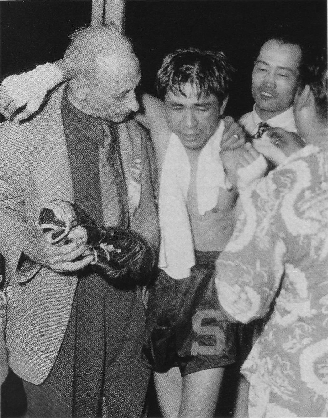 Yoshio Shirai (The first Japanese World Champion Boxing (World flyweight champion)) and Alvin Rober Cahn (Shirai's trainer).